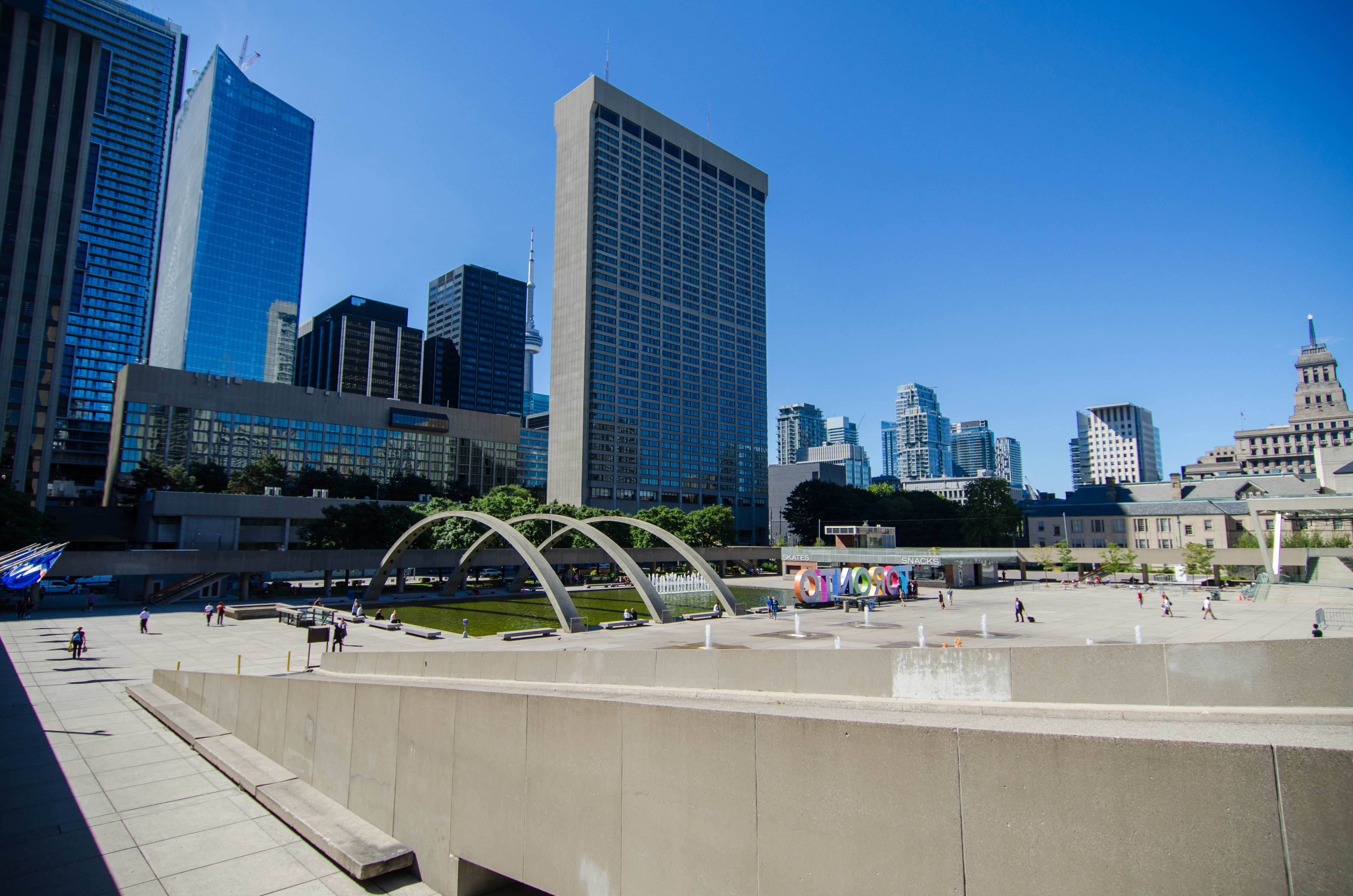 Seen in Room & Mark Lewis: Nowhere Land.